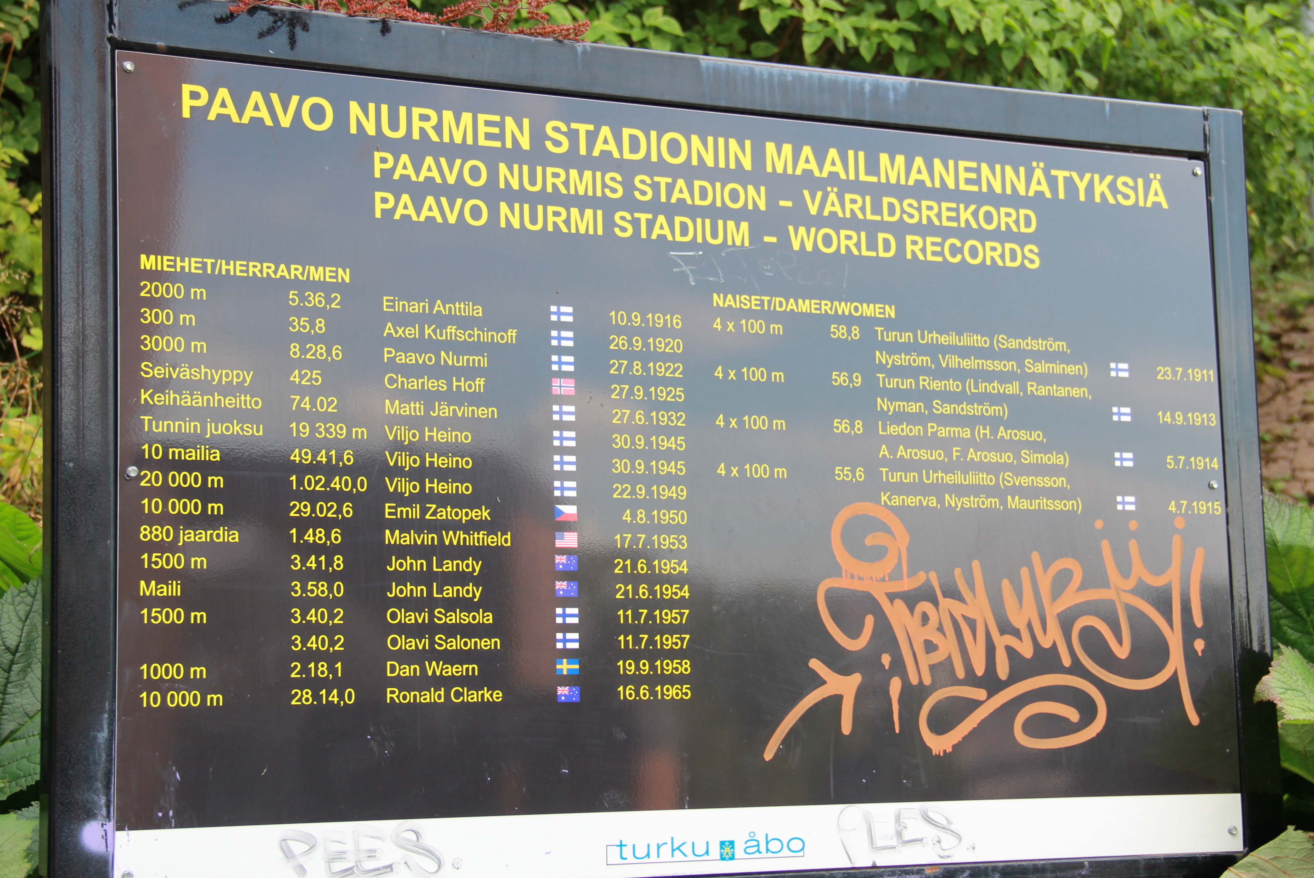 Paavo Nurmi Stadium, Turku, Finland. - List of stadium's world records.